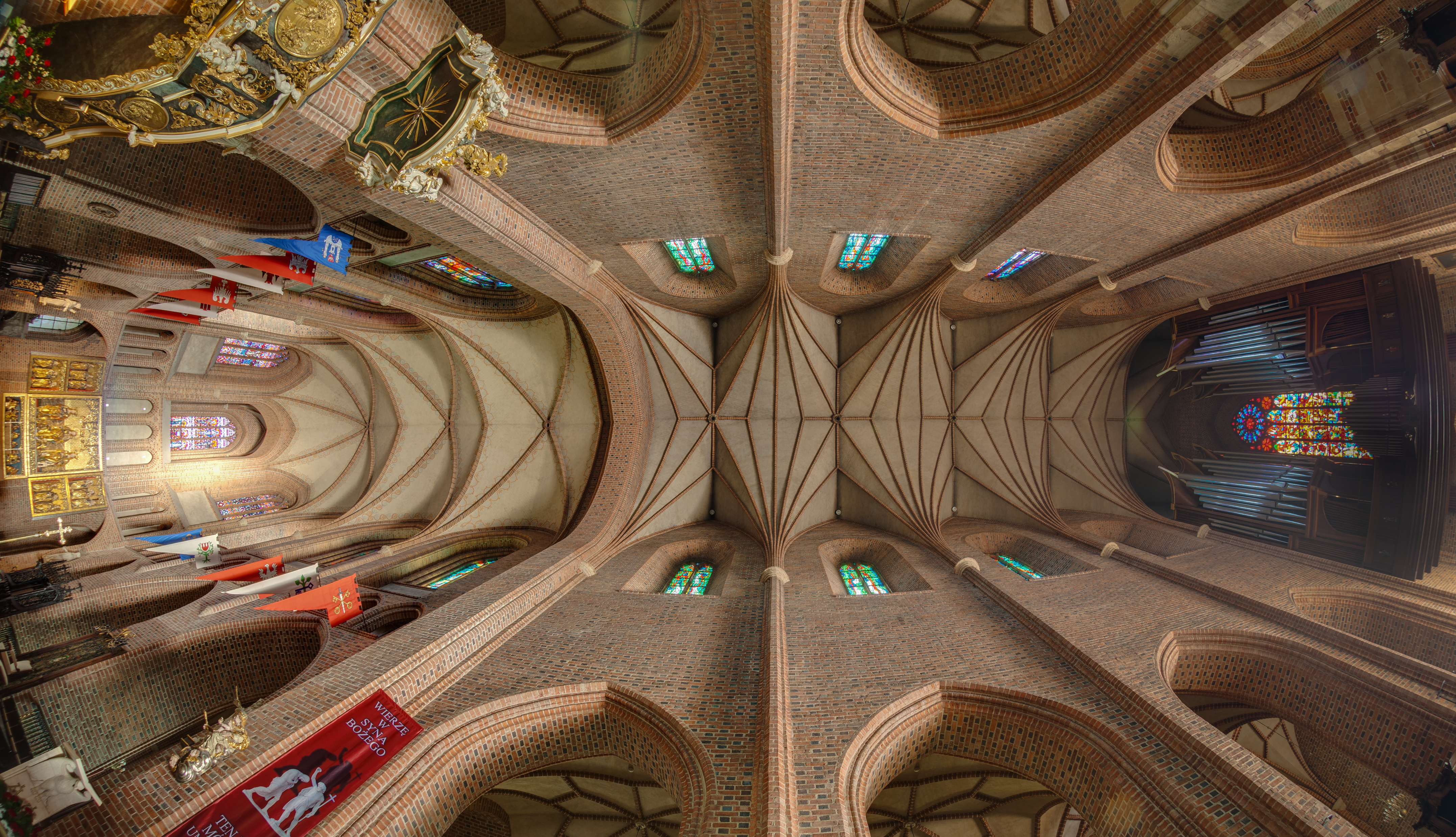 Poznan Cathedral, Poznan, Poland